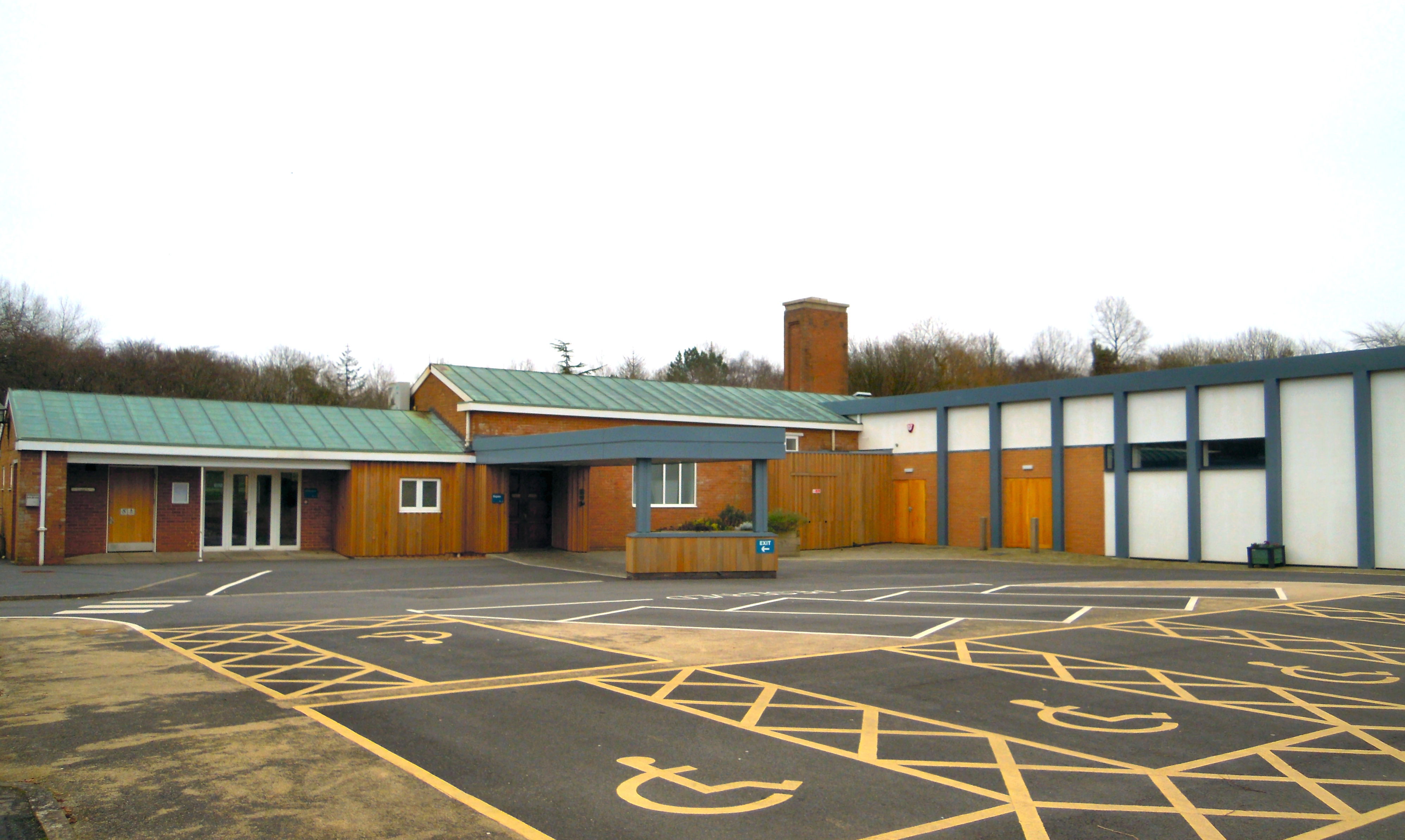 Entrance area - North Devon Crematorium at Barnstaple in Devon